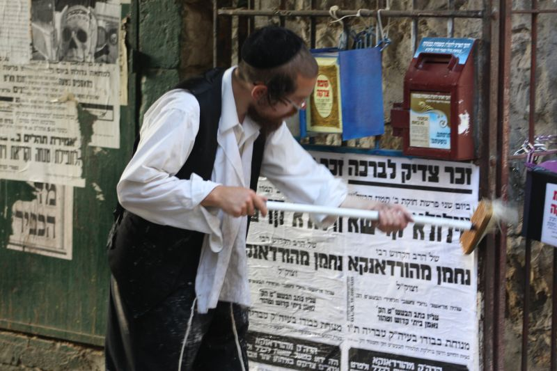 Note in Mea Shearim for Rabbi Nacham of Horodonka Yahrzeit in Tiberias